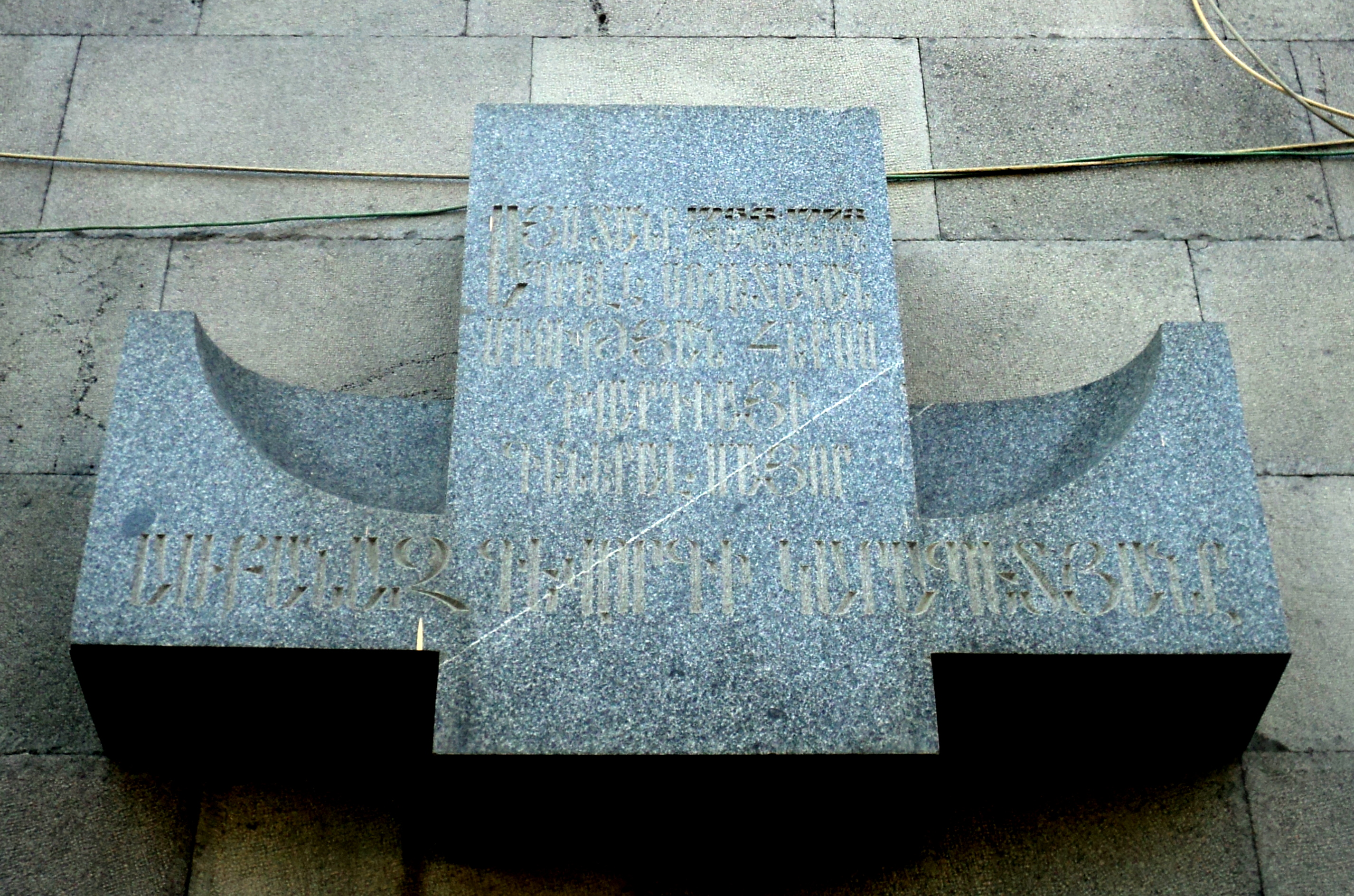 Ասքանազ Կարապետյանի հուշատախտակը Երևանում